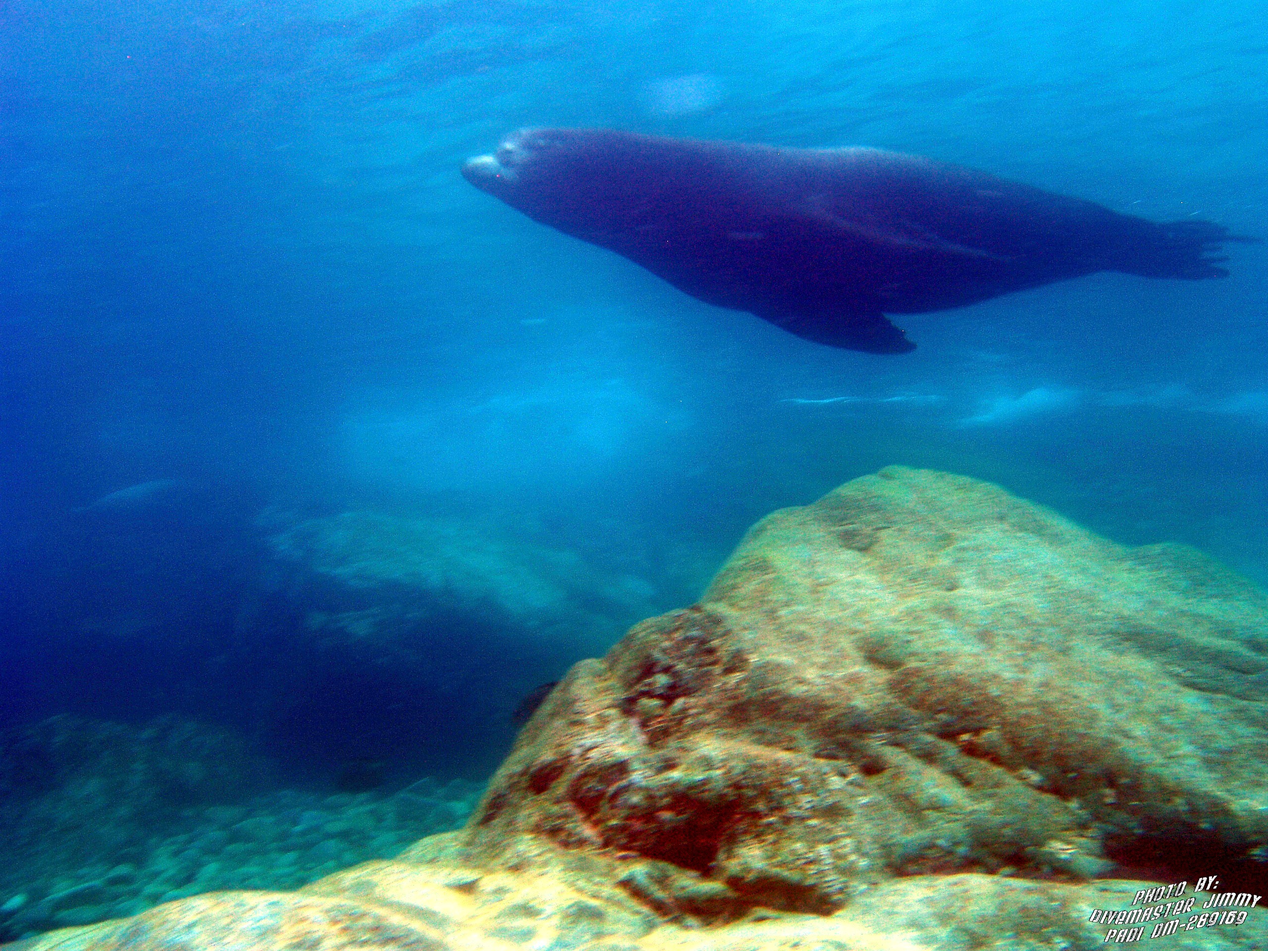 Sea lion Bull at Magnalena Bay